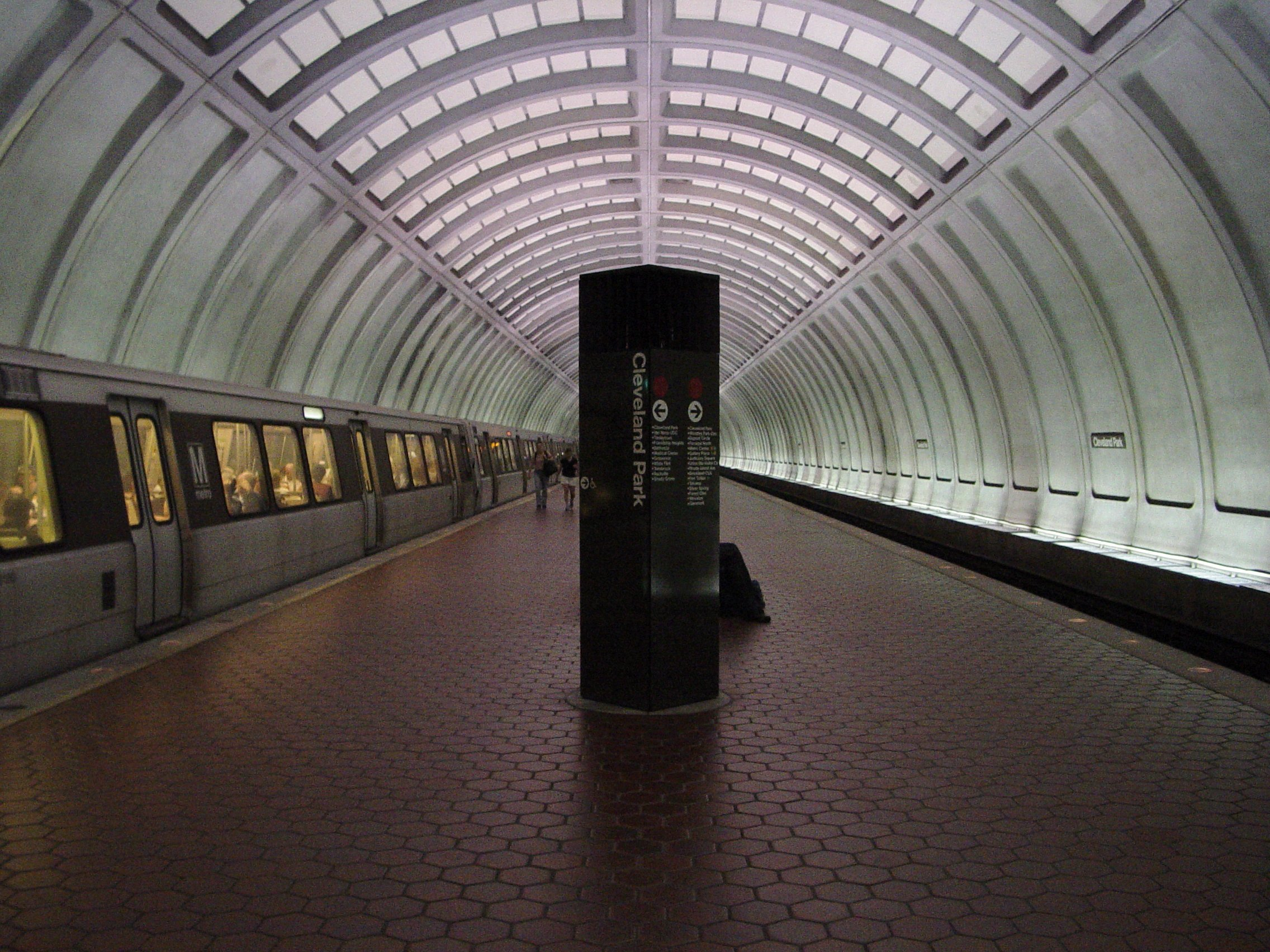 Cleveland Park, a station on the Red Line of the Washington Metro.